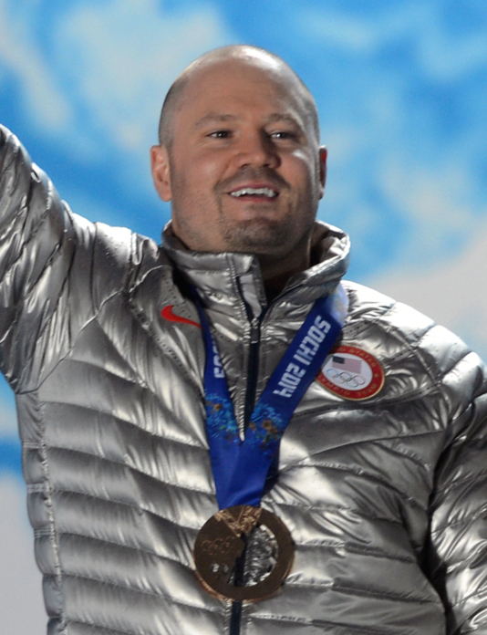 Former U.S. Army World Class Athlete Program bobsledder Steven Holcomb of Park City, Utah, hoist the flowers and display his bronze medal during the Olympic two-man bobsled medal ceremony Feb. 18 at Olympic Park in Sochi, Russia. (U.S. Army photo by Tim Hipps)